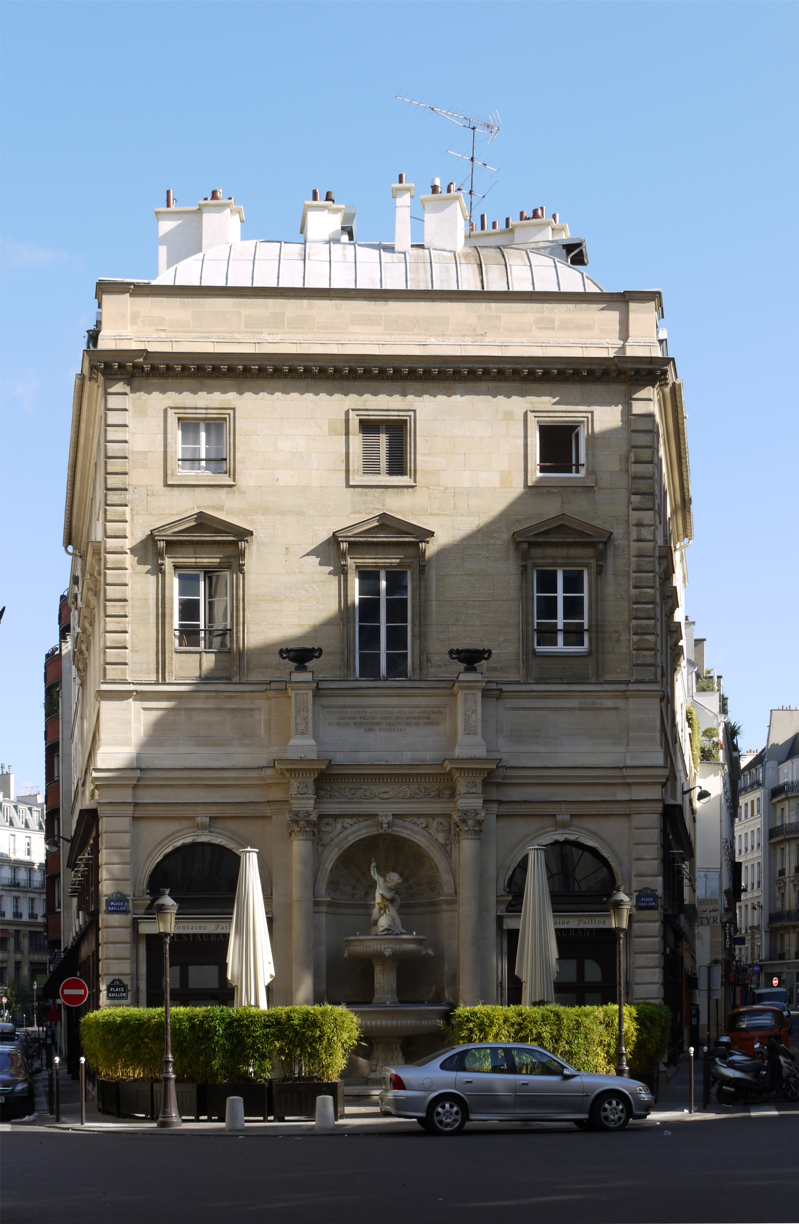 Fontaine Gaillon, Paris